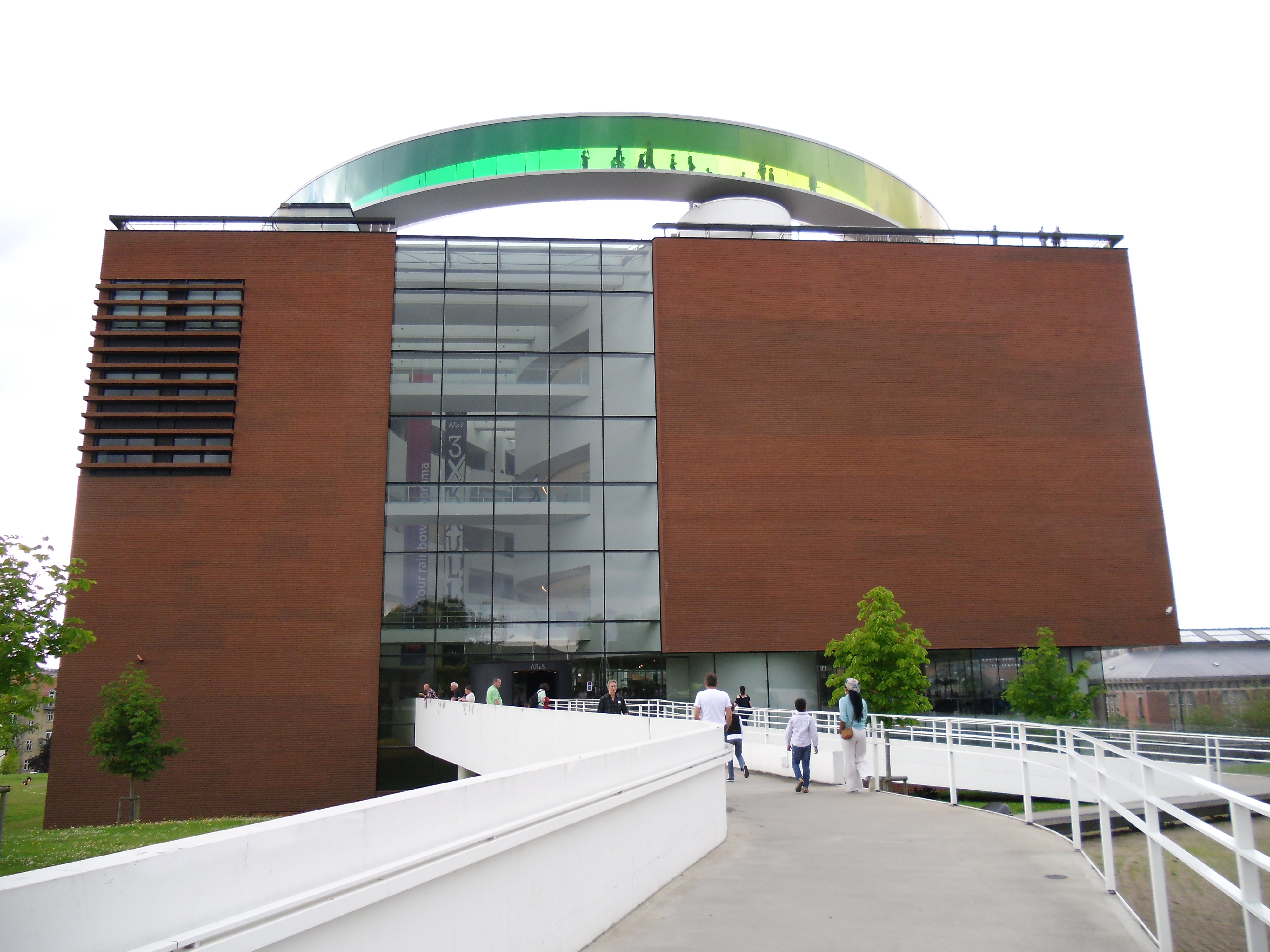 ARoS kunstmuseum with "your rainbow panorama" on the top.